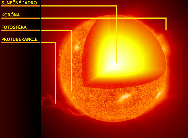 slovak version of the picture